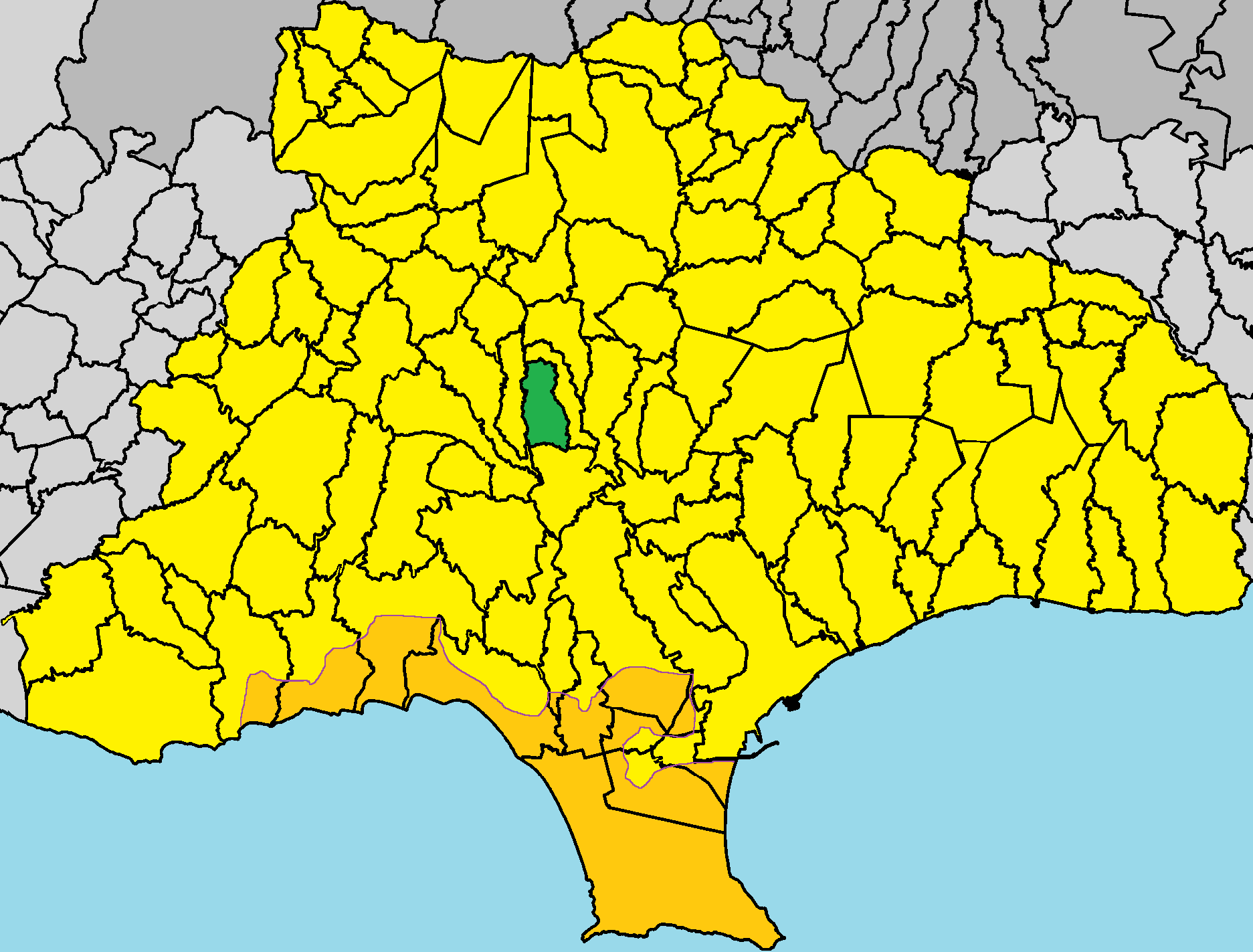 Monagri in Limassol District.